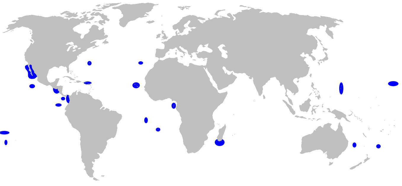 Distribution map for Carcharhinus galapagensis